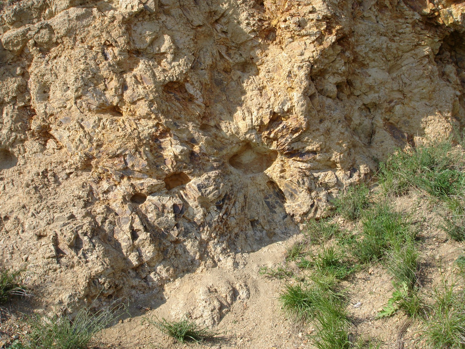 Kamenná slunce in České středohoří, Czech Republic